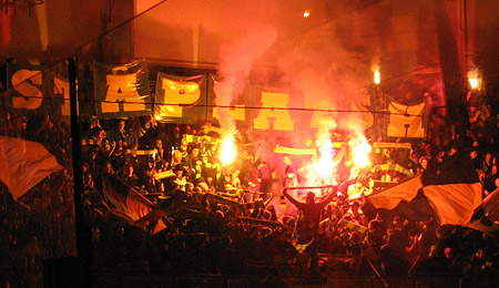 Green Devils Ståplats H